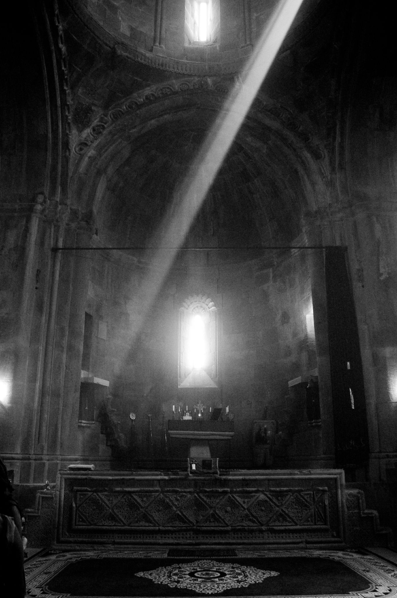 Gandzasar cathedral, in Kararbakh.